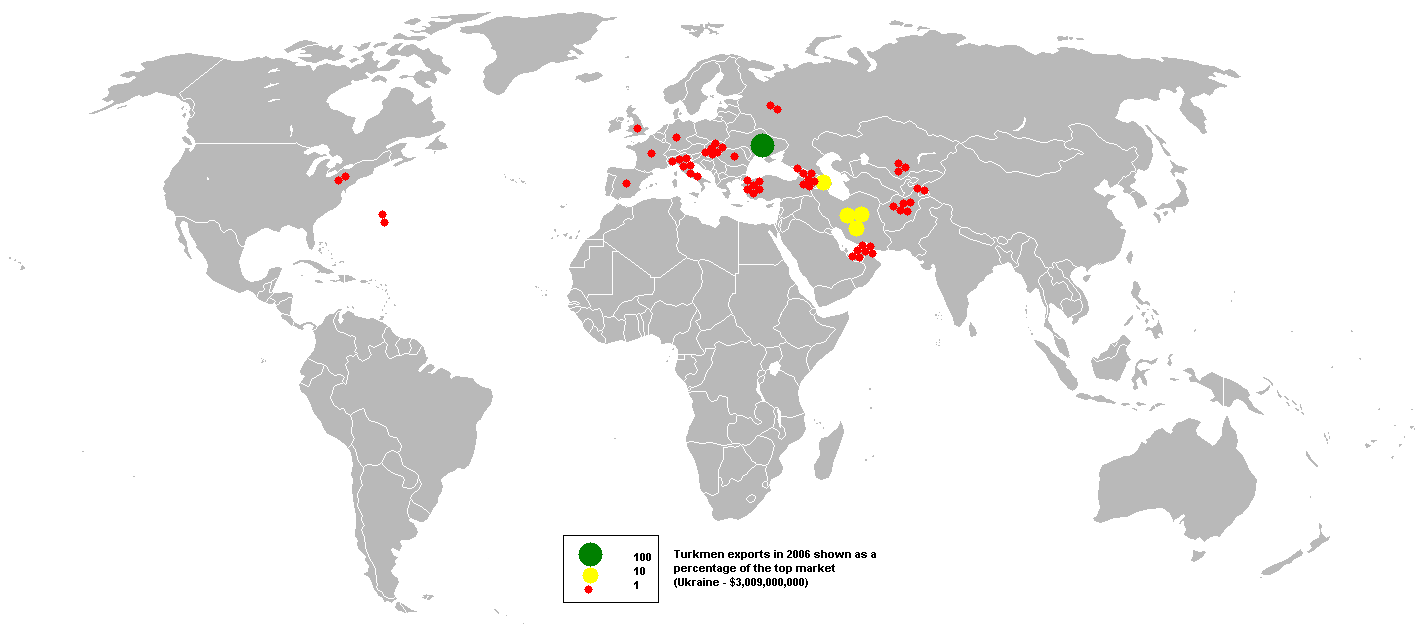 This bubble map shows the global distribution of Turkmen exports in 2006 as a percentage of the top market (Ukraine - $3,009,000,000). This map is consistent with incomplete set of data too as long as the top producer is known. It resolves the accessibility issues faced by colour-coded maps that may not be properly rendered in old computer screens. Data was extracted on 19th September 2007 from Based on :Image:BlankMap-World.png